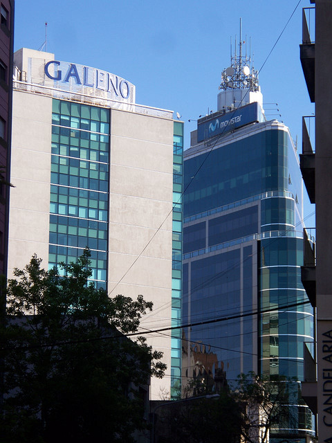 Yrigoyen Office (Galeno) and Ecipsa towers. Córdoba, Argentina.